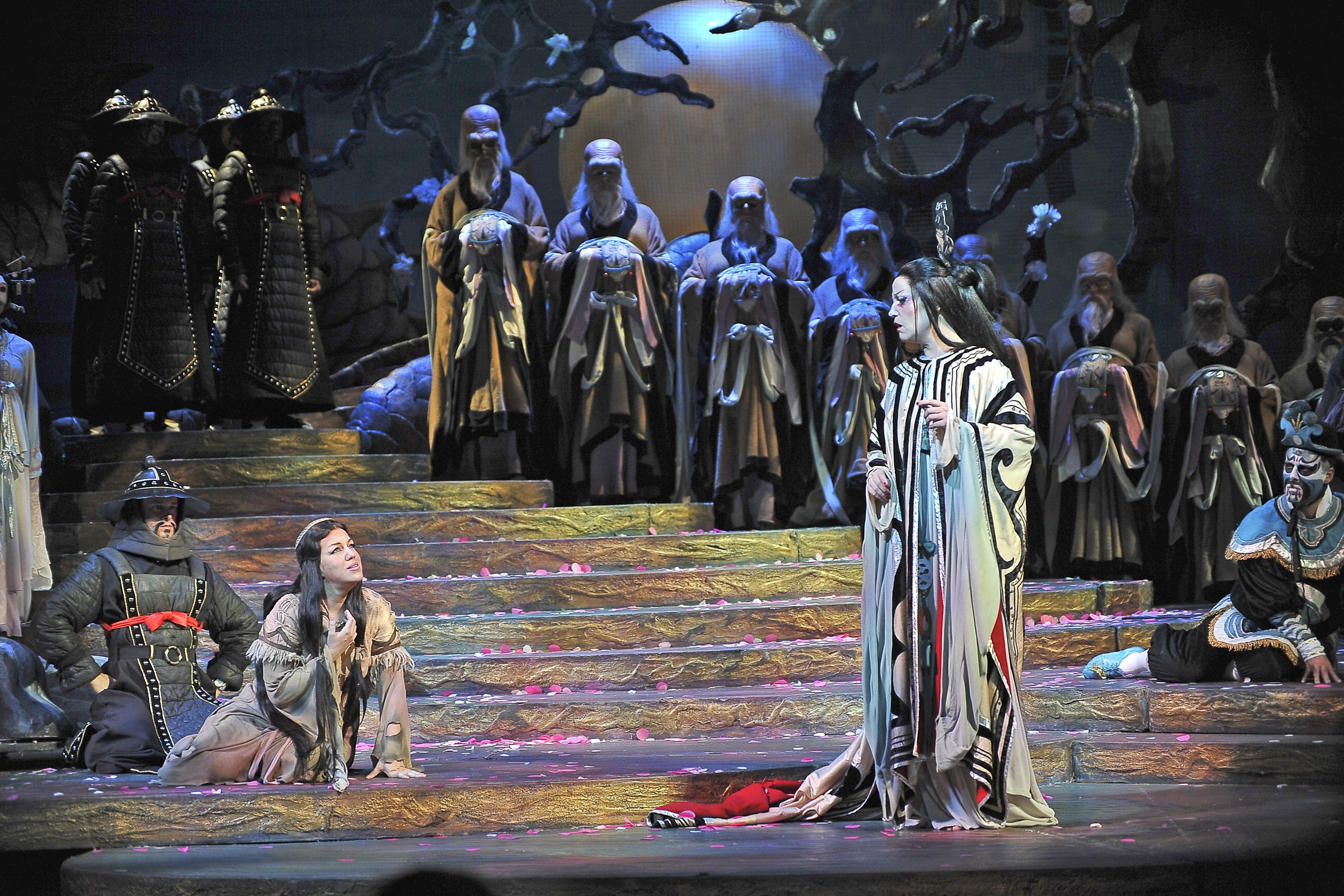 Elizabeth Caballero & Lise Lindstrom in 2010 production of Turandot by Giacomo Puccini (Photo: Gaston De Cardenas), part of FGO's Opera Free for All project.